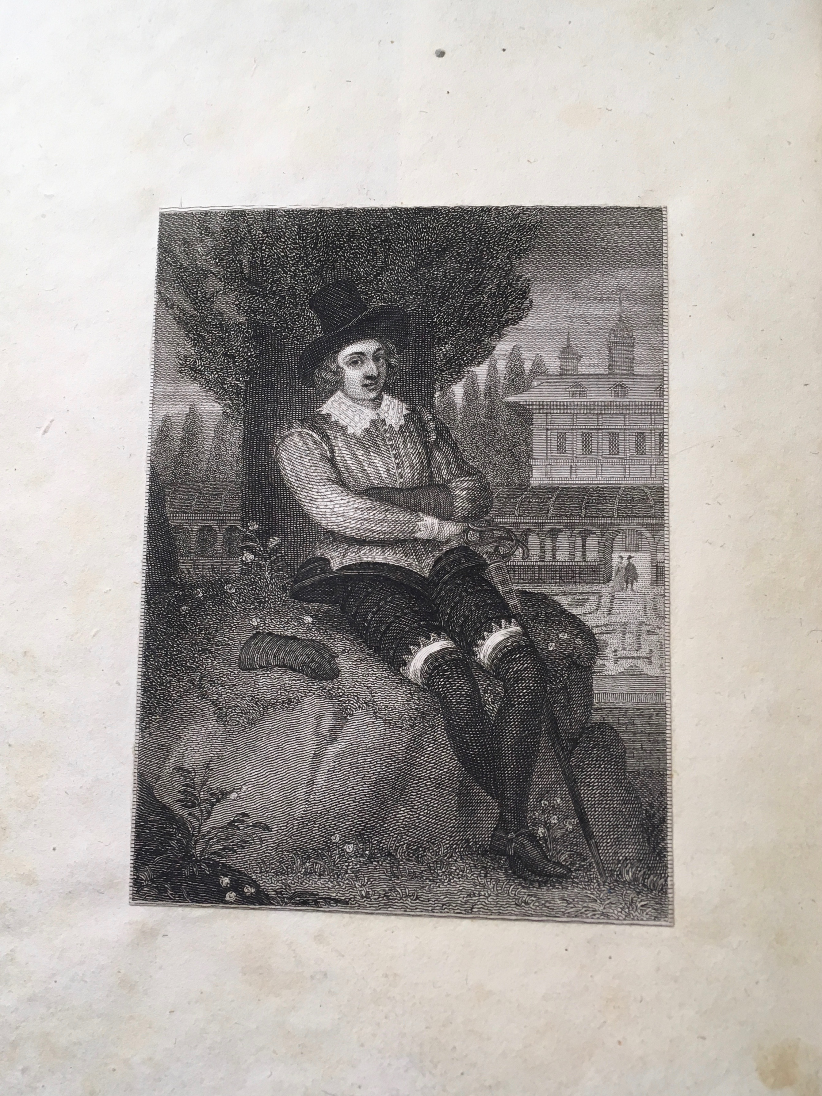 The portrait of Sir Philip Sidney opposite the title page of Astrophel & Stella by Sir Philip Sidney. Copy in the possession of the British Library, system number 003378348, shelfmark G.11544.